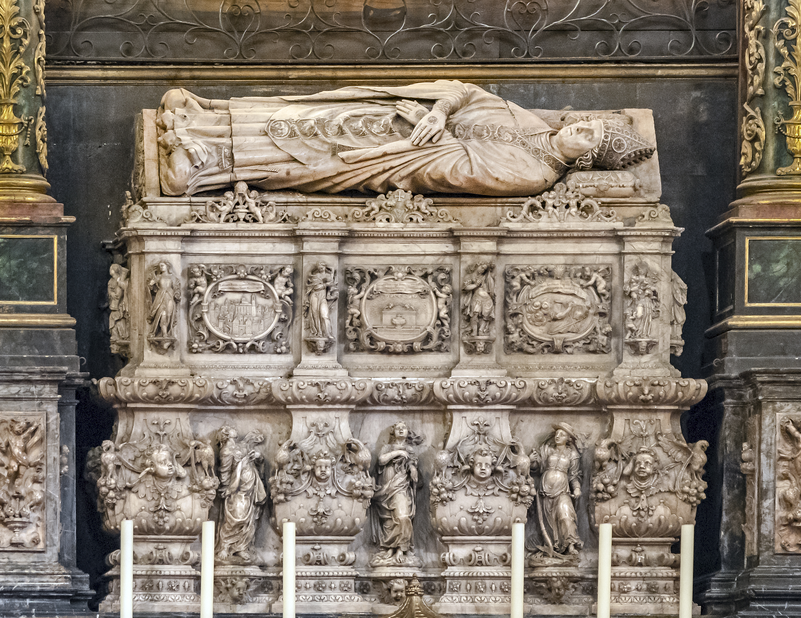 The Cathedral of the Holy Cross and Saint Eulalia in Barcelona. Tomb of Saint Olegarius Sepulchral urns by Francesc Grau and Domènec Rovira, gisant by Pere Sanglada 1406